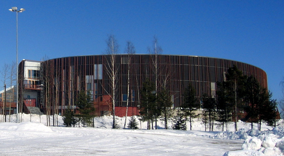 Hamar Olympic Amfi, Hamar, Hedmark, Norway.